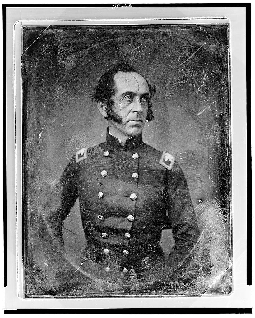 Col. James Duncan, U.S. Army, three-quarters to the right, in military uniform. James Duncan emerged from the war as the premier American artillerist, due to his intrepidity and inspirational leadership. Battery A, 2nd U.S. Artillery, known as Duncan's Battery, was frequently well in front of the infantry in exposed positions (Duncan's Battery (1839-1848)). James Duncan graduated from the United States Military Academy in 1834. Two years later, he served in the Florida war against the Seminole Indians and commanded an artillery company during the war with Mexico from 1846 to 1848. His heroics in the latter conflict caught the attention of army officials, and Duncan rose rapidly from captain to colonel. In late 1848, President James Polk appointed Colonel Duncan inspector general of the United States Army. The daguerreotype in the Palmer collection was made when Duncan came to New York City in December 1848, shortly before beginning his first inspection trip. A few months later, while visiting troops in Mobile, Alabama, he contracted yellow fever and died on July 3, 1849. Duncan's notoriety as a war hero was so great that even three years after his death the most fashionable portrait studio in New York City was still exhibiting his portrait as one of the select "Illustrious Americans." (Colonel James Duncan)